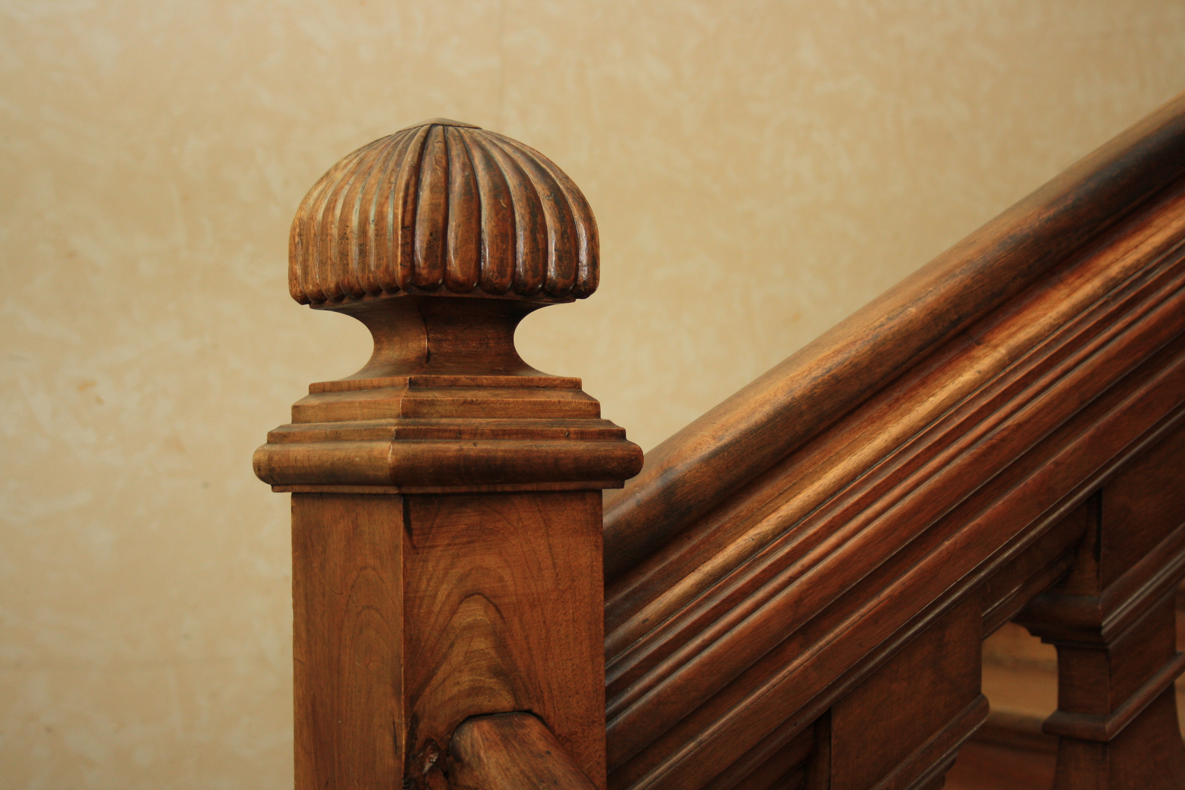 Villa Saint Cyr newel cap in the stairs in Bourg-la-Reine, France